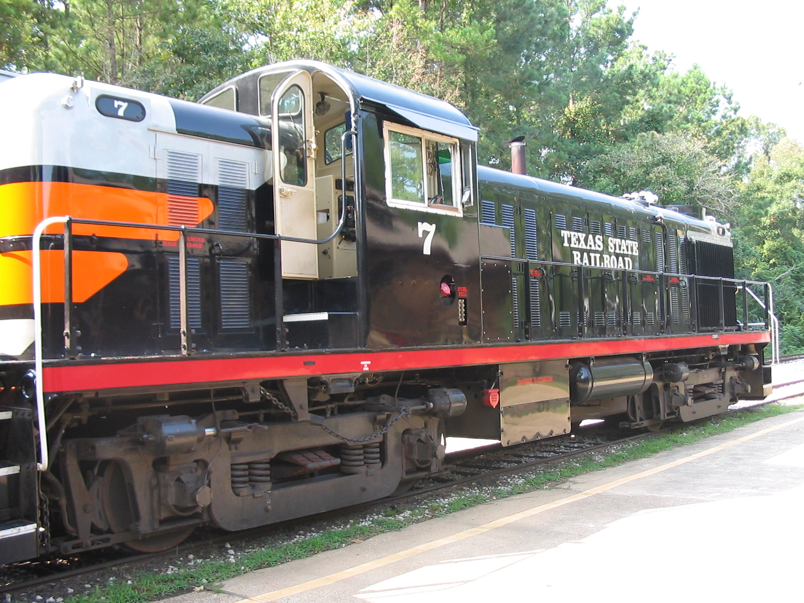 Texas State Railroad engine 7 at Rusk terminal - ALCO RS2 built in 1947